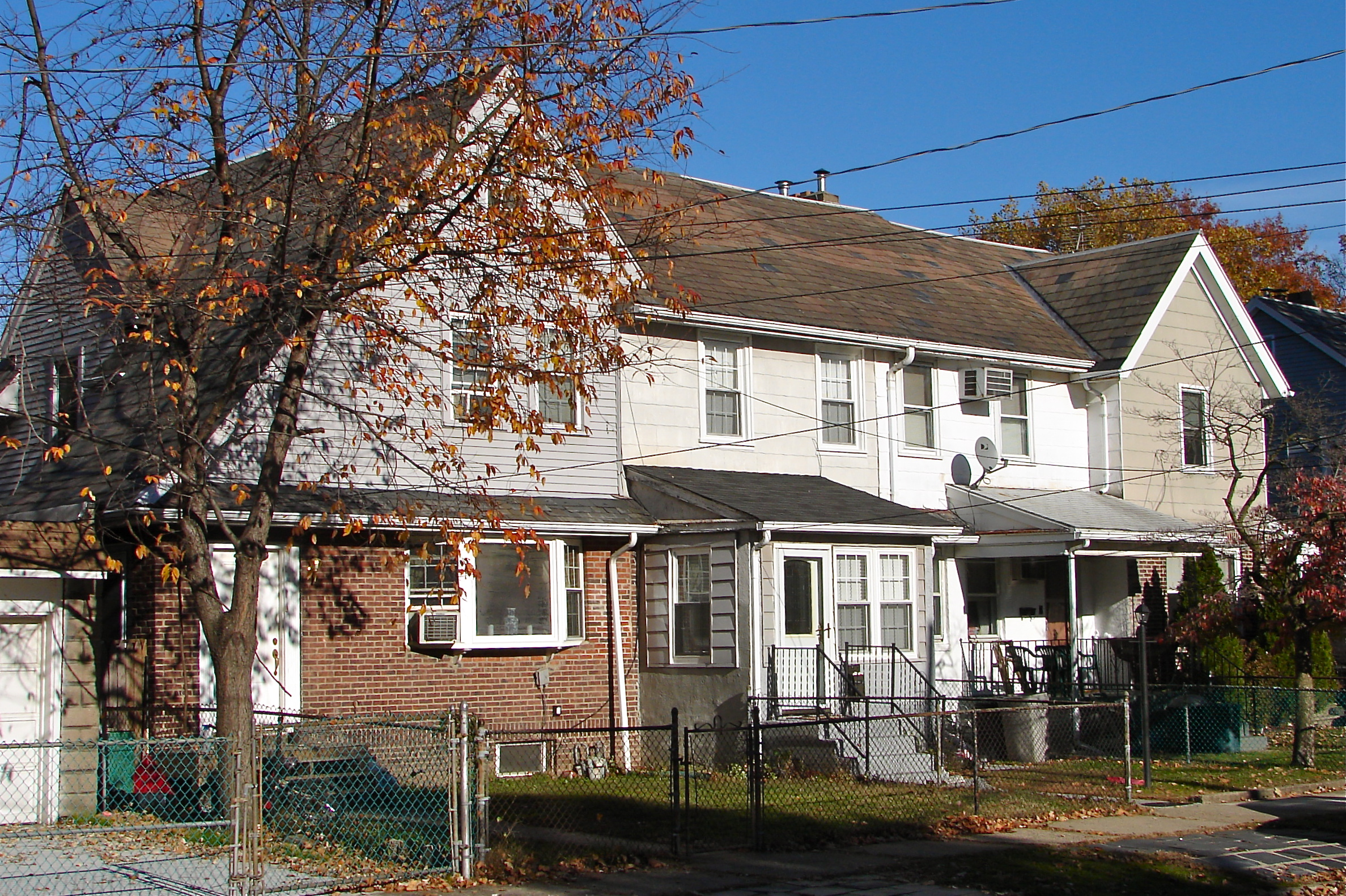 House in Harriman Historic District on the NRHP since April 30, 1987. Historic district is roughly bounded by Trenton Avenue, Cleveland and McKinley Streets, Farragut Avenue, and West Circle in Bristol, Pennsylvania. Neighborhood mostly built to house workers at nearby shipyard during World War I. Most houses have similar shape to this and look solidly built, e.g. slate instead of tar shingles, but neighborhood is looking it's age.